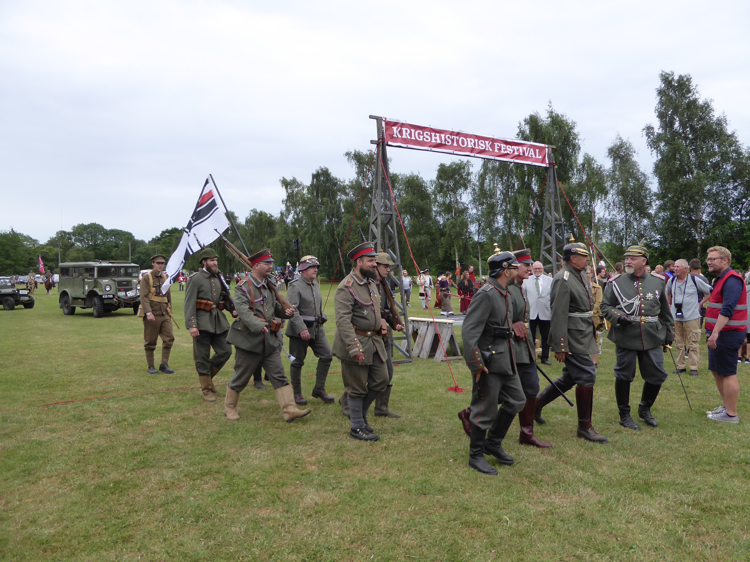 Krigshistorisk Festival (War Historical Festival) in Rødovre in Copenhagen. Westfront 1916 represented World War I. At the right the historian Kåre Johannessen.